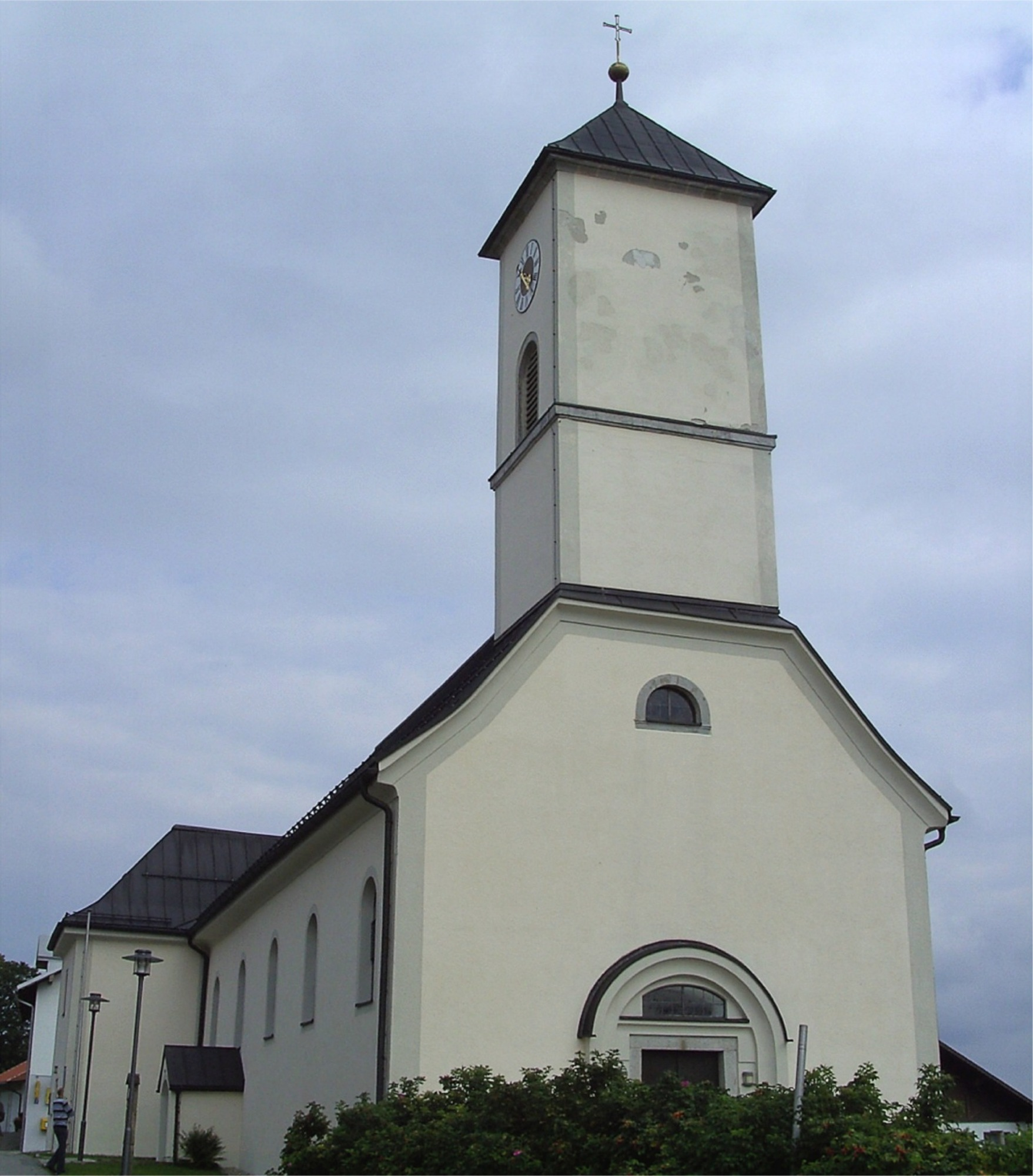 Mauth (Lower Bavaria), view of St Leopold Parish Church from west.